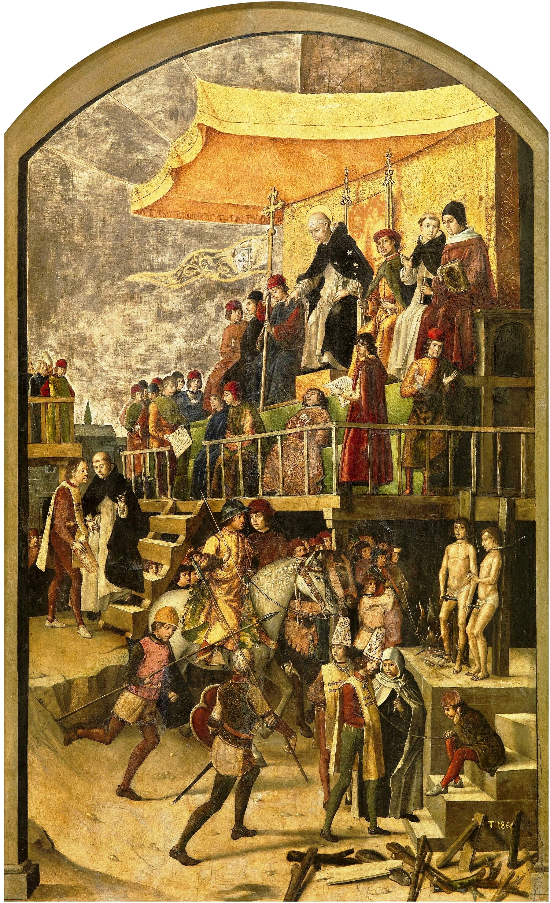 Saint Dominic presiding over an Auto-da-fe. From the sacristy of the Santo Tomás church in Ávila.